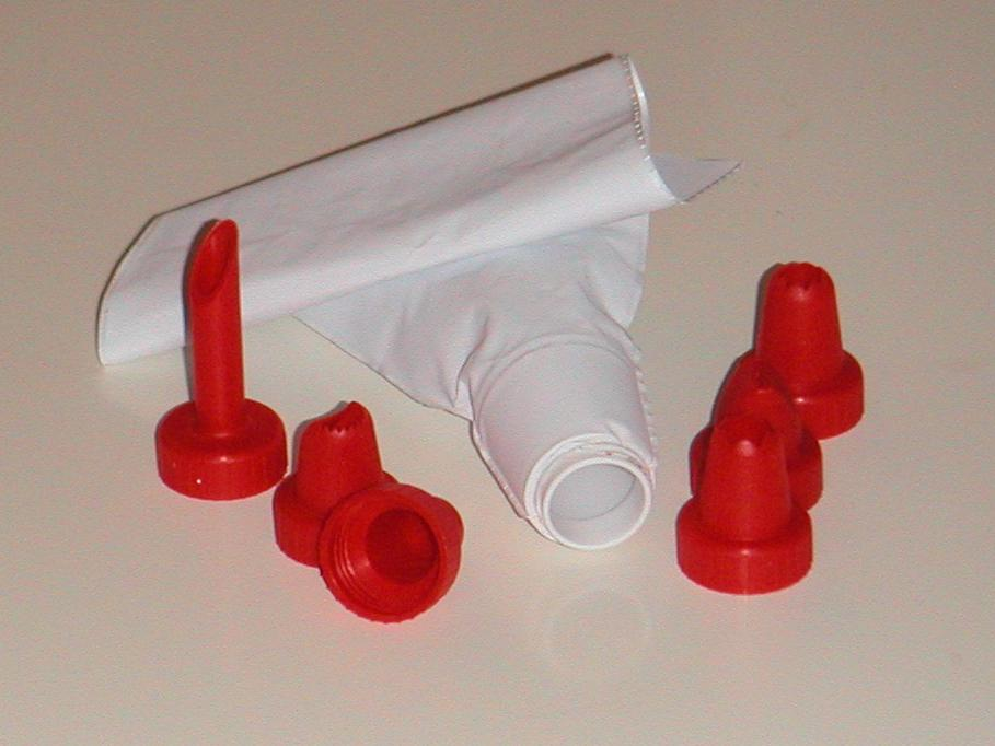 An inexpensive pastry bag, made of plastic film with a hard plastic insert and threaded, interchangable tips. Clockwise from left: Injection (for filling pastries, e. g. cream puffs), half-circle, fine round (facing away from camera to show threads), coarse star, flat, fine star. Photo by user:Polyparadigm.